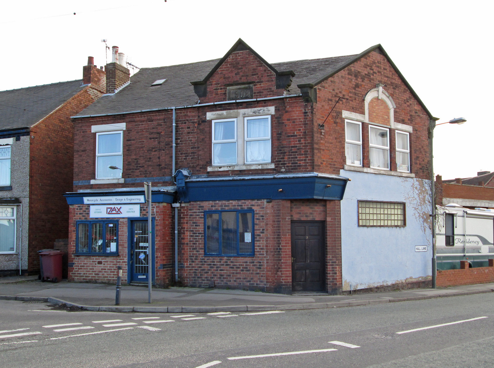 Newton - former Co-op on Newton Green